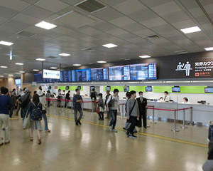 The ticketing counter on the 4th floor of the Shinjuku Expressway Bus Terminal.